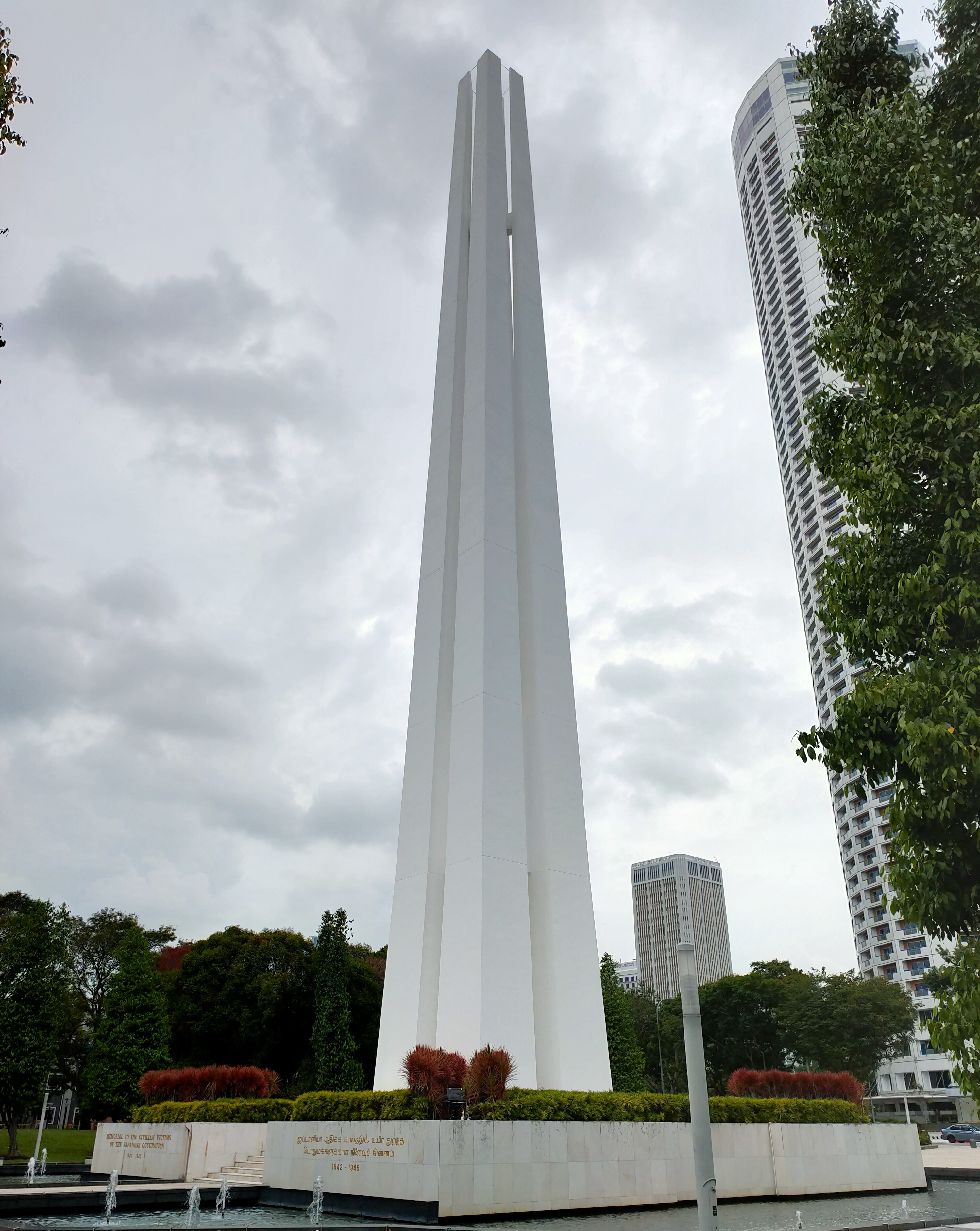 Taken in 2019, picture of the Civilian War Memorial with Oppo Reno 2